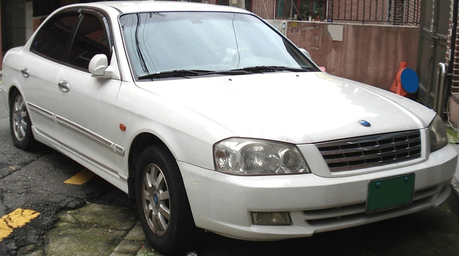 Kia Optima